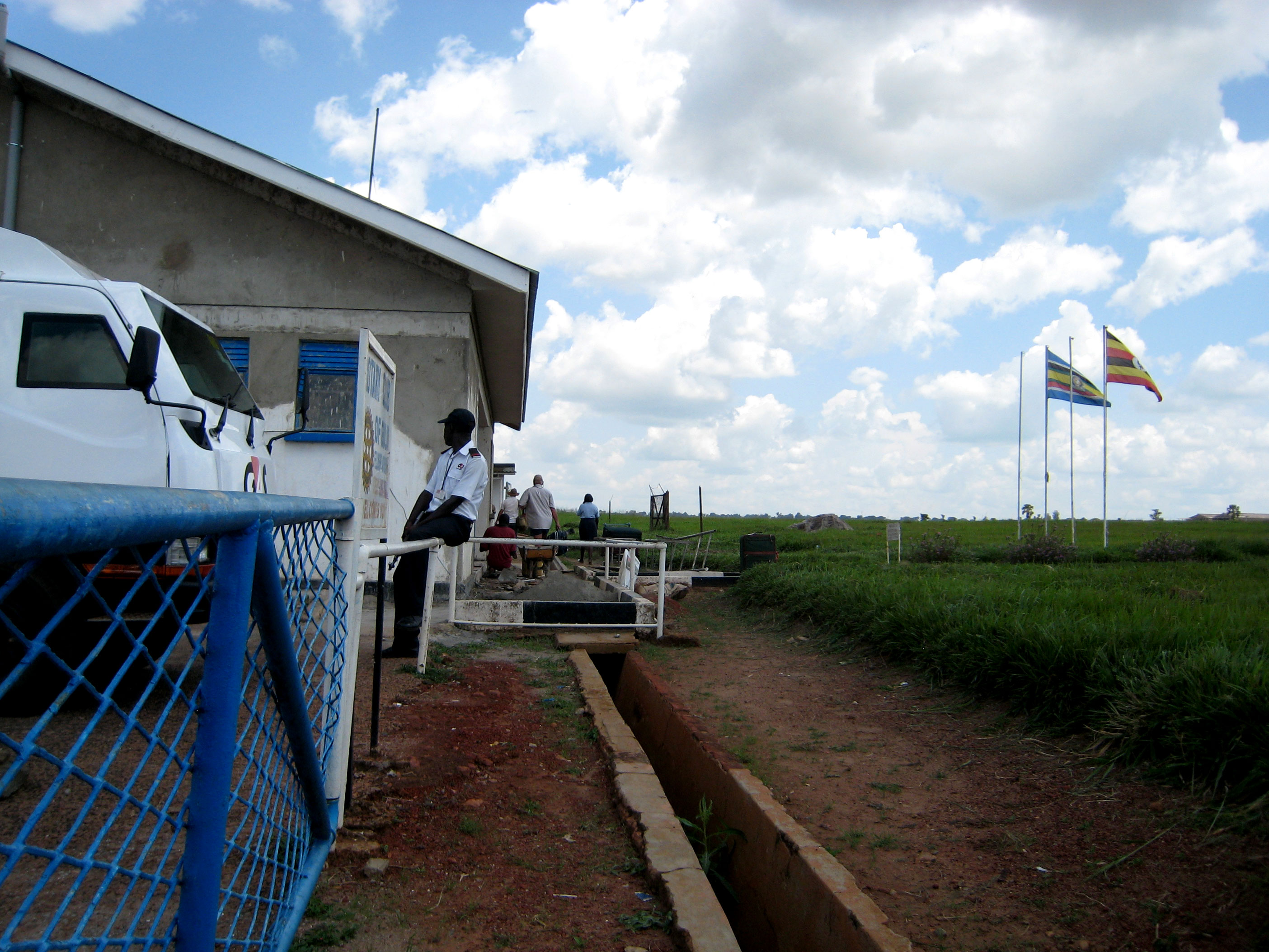 Buildings at Gulu Airport